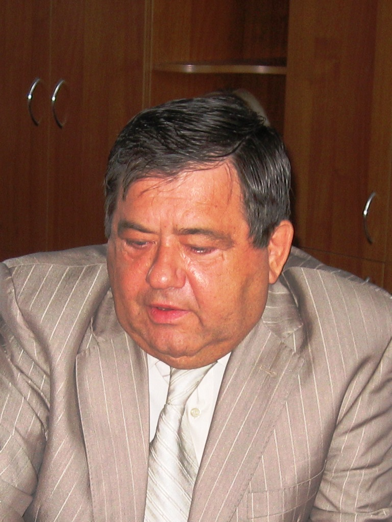 Mikhail Fedorovich Bondarenko, head of Kharkov National University of Radio Electronics